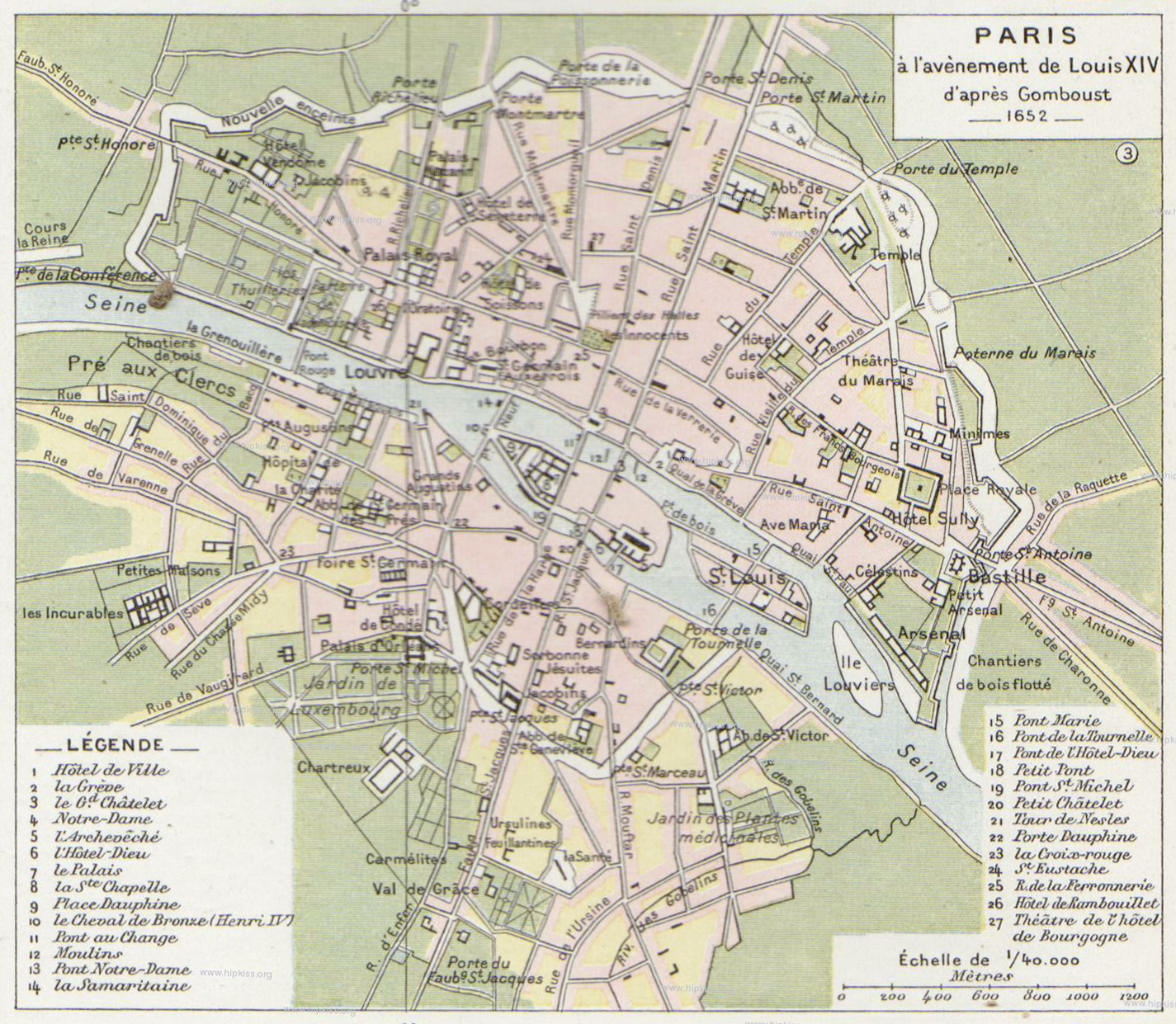 Map of Paris (Paris à l'avènement de Louis XIV) from Atlas General Histoire et Geographie by Paul Vidal de La Blache.